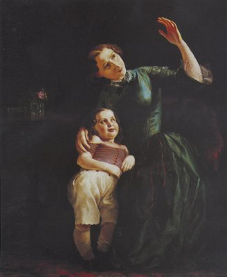 See_How_the_Sun_Shines